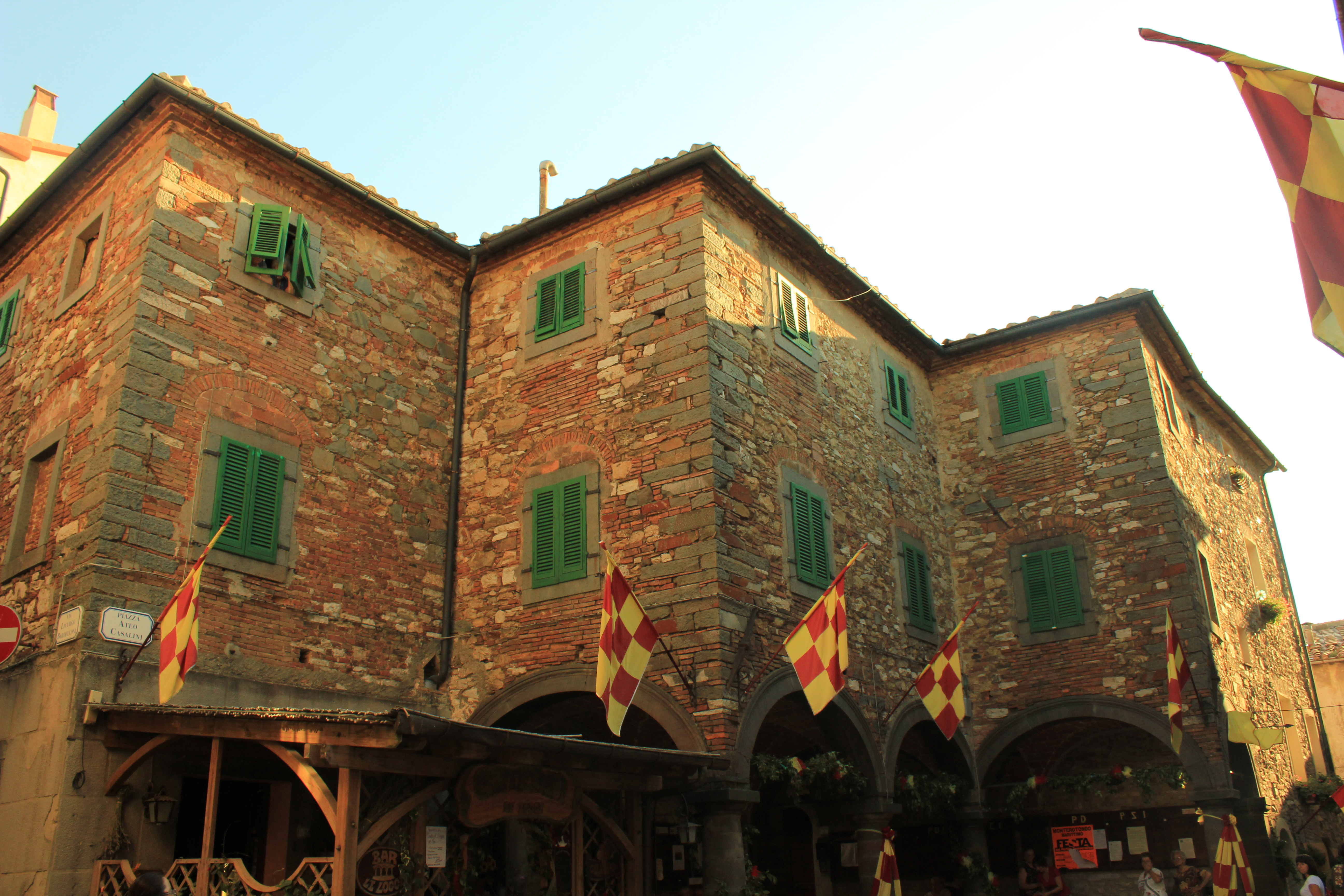 Palazzo delle Logge in Monterotondo Marittimo, Grosseto.